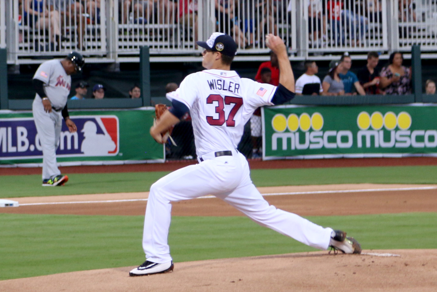 Atlanta Braves pitcher Matt Wisler throws the first pitch of the game against the Miami Marlins at Fort Bragg Field, Fort Bragg, N.C. on Sunday, July 3, 2016. Fort Bragg, MLB and the MLB Players Association teamed up to put on the historic regular season game between the Braves and Marlins at Fort Bragg. (US Army photo by Staff Sgt. Jason Duhr) Unit: 108th Air Defense Artillery Brigade